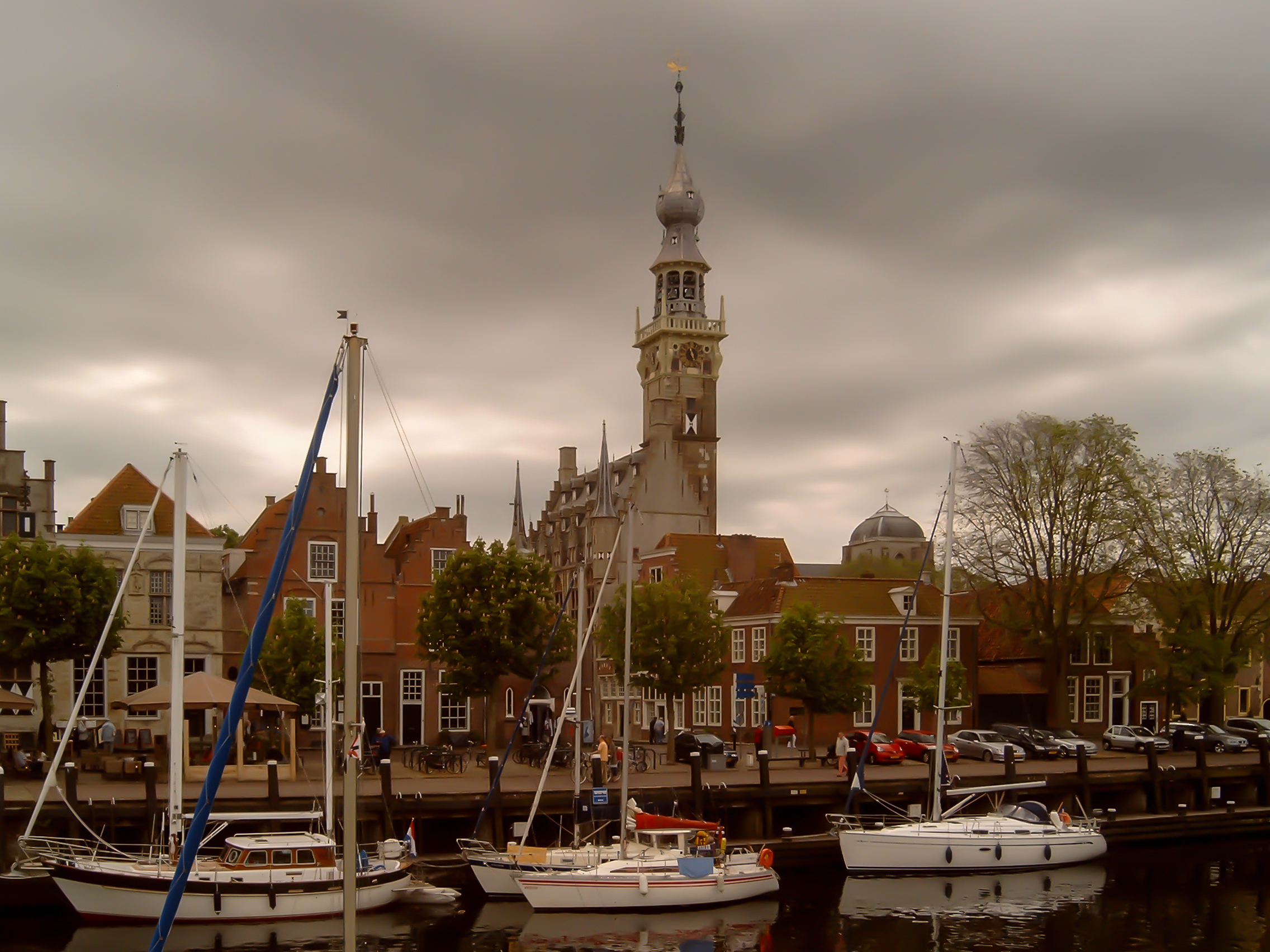 Veere, town hall and marina